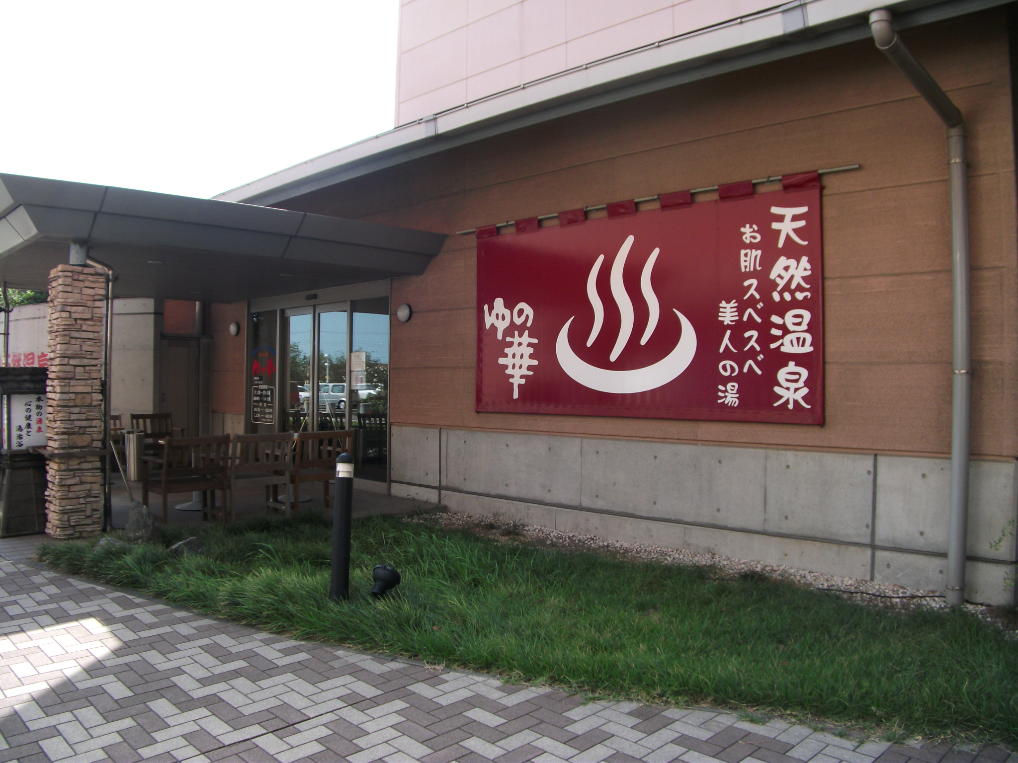 Yu no hana hot spring at the Kashima Central Hotel in Kamisu City, Ibaraki Prefecture, Japan